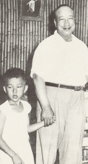 Record Group 306 Records of the U.S. Information Agency, 1900-2003 Still Pictures Identifier: 306-ppb-231 中文（台灣）: 自由世界畫報(Free World Pictorial)，是美國新聞處（United States Information Service，縮寫為USIS）曾於冷戰(Cold War)時期在台灣發行的半月刊，每期約9000份，主旨是宣傳美國，與中(ROC)美合作